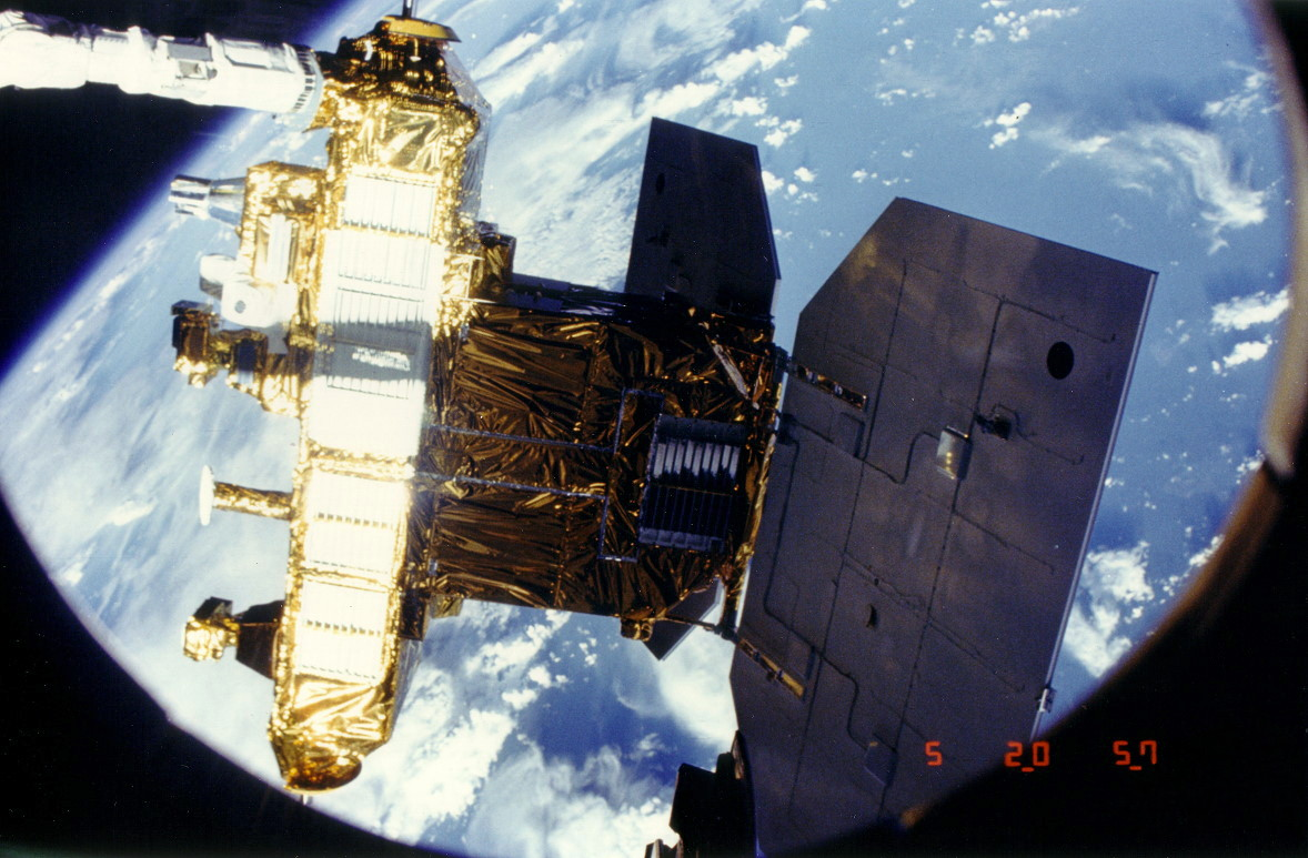 View of the ERBS satellite during deployment on STS-41-G.